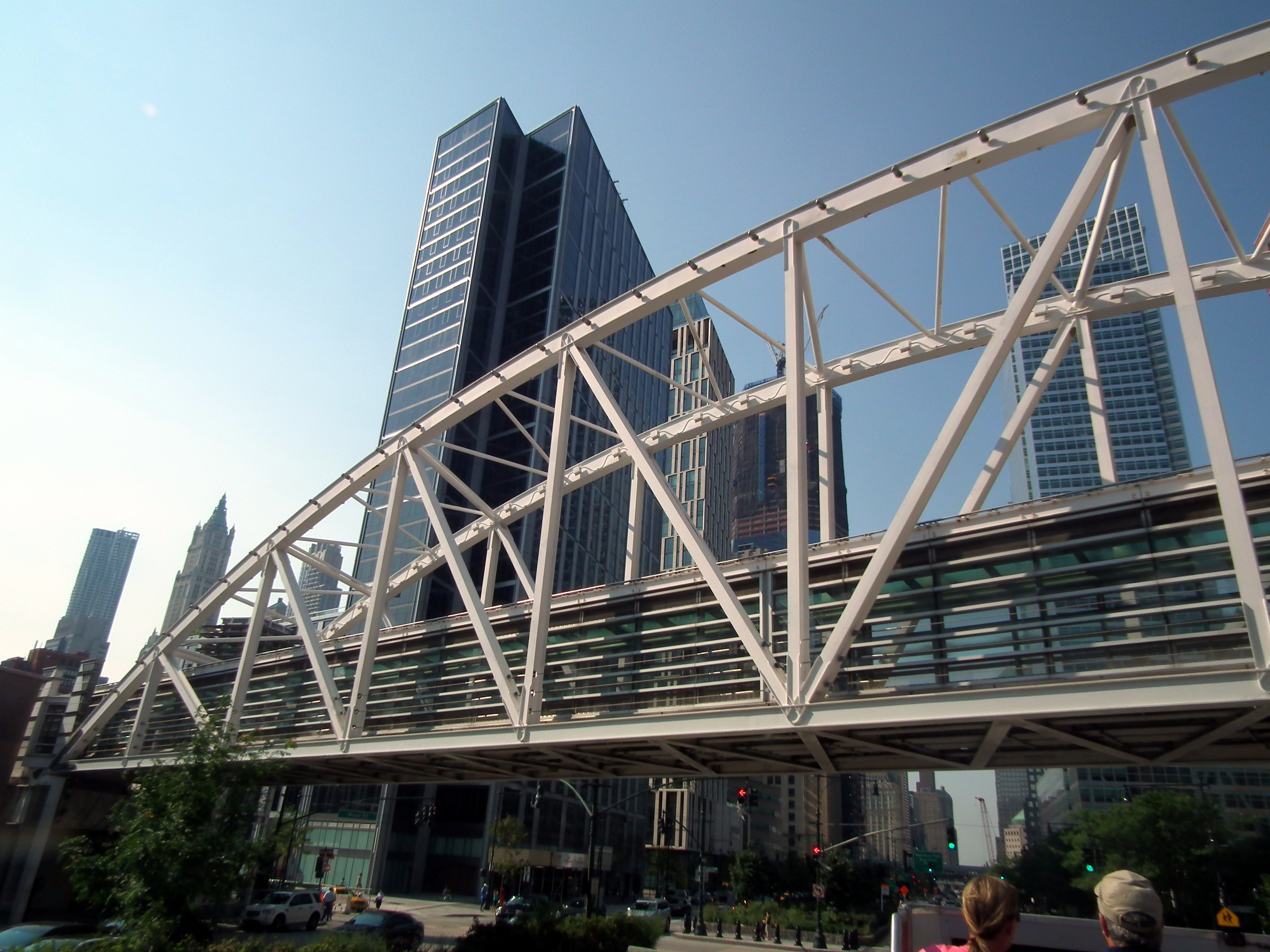 New York City